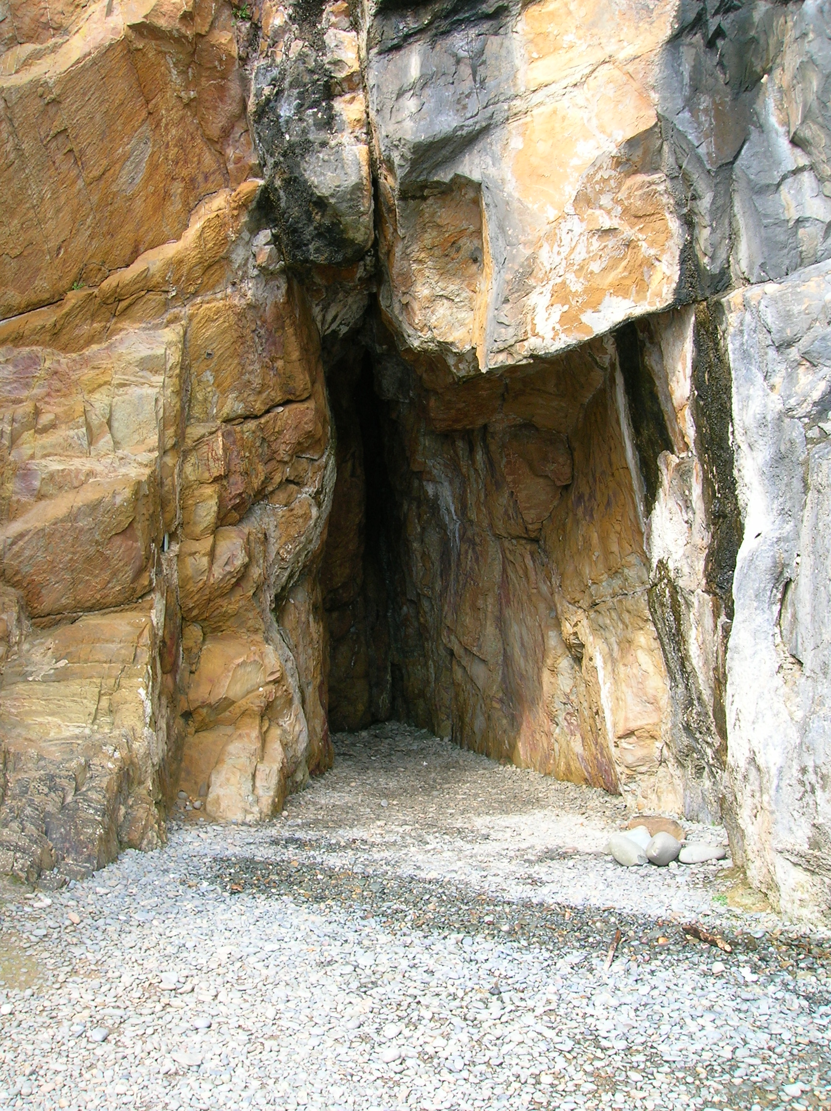 Saint Ninian's Cave in the Machars, Galloway, Scotland